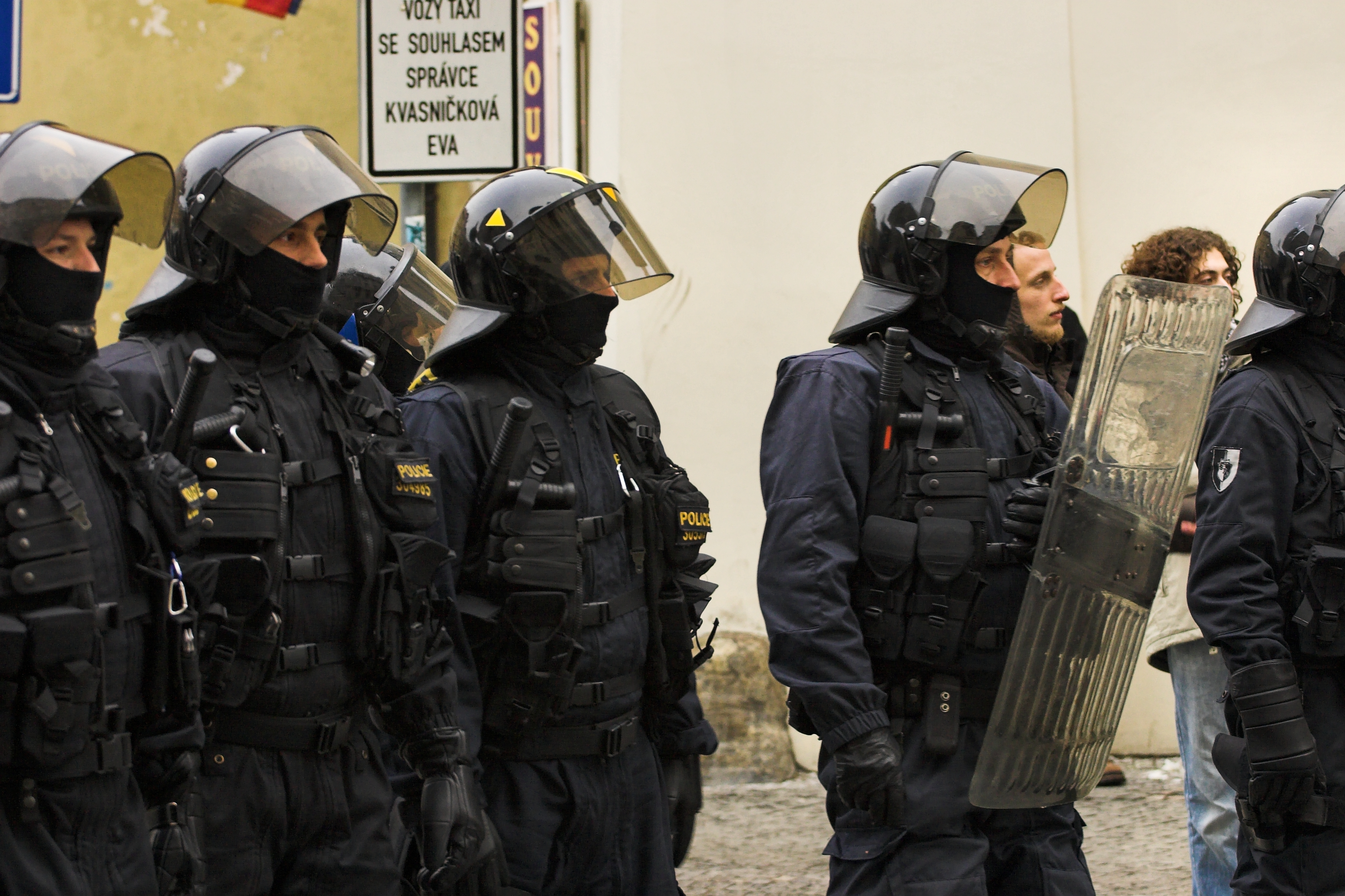 Czech special disciplinary force at demonstration for Izrael, January 2009, náměstí Franze Kafky, Prague.